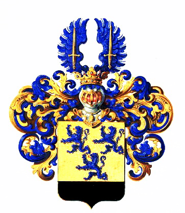 Coat of arms of the family Grigorij Kuzmitch Jakovlev